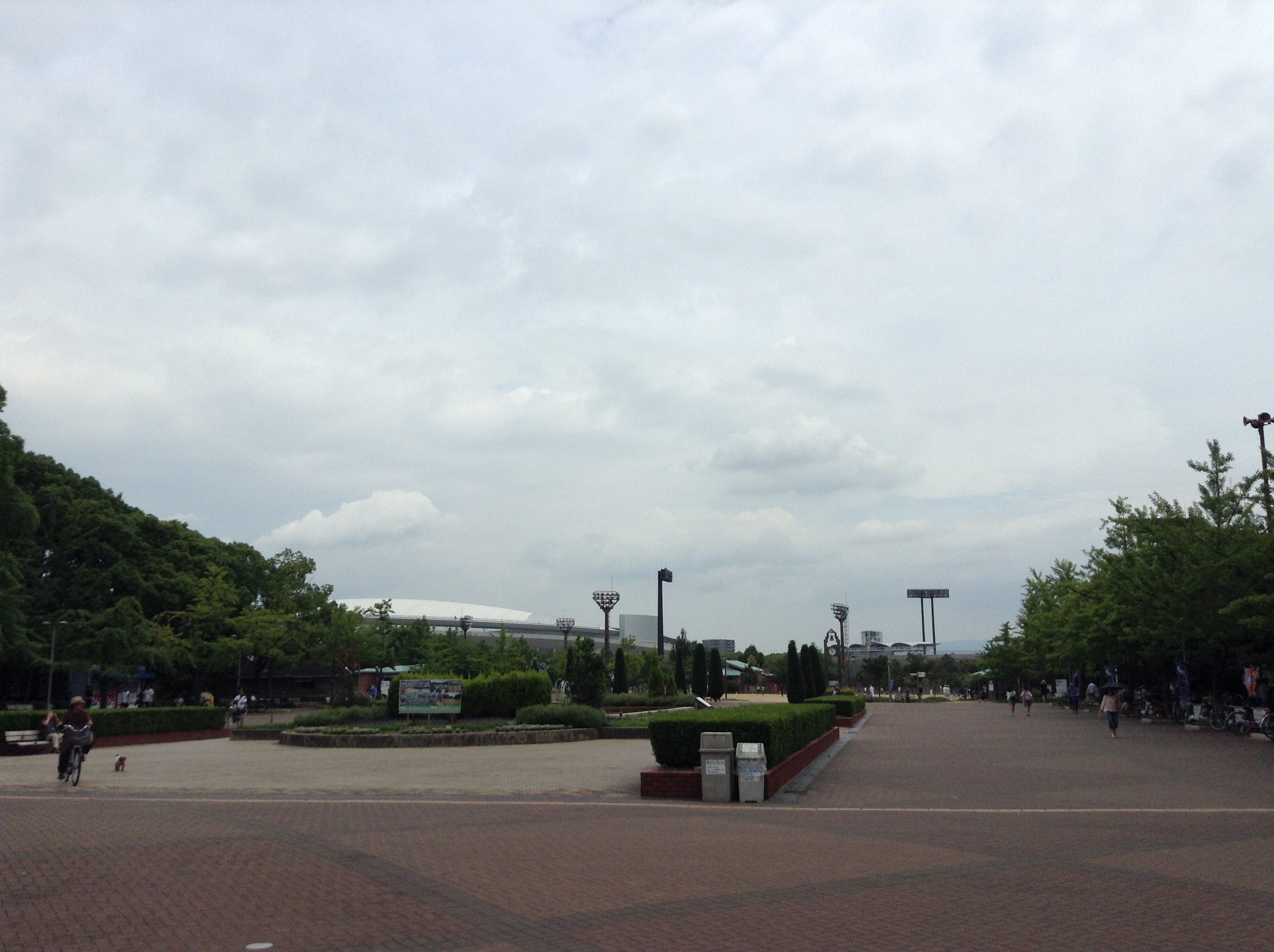 The entrance of a Nagai Park.